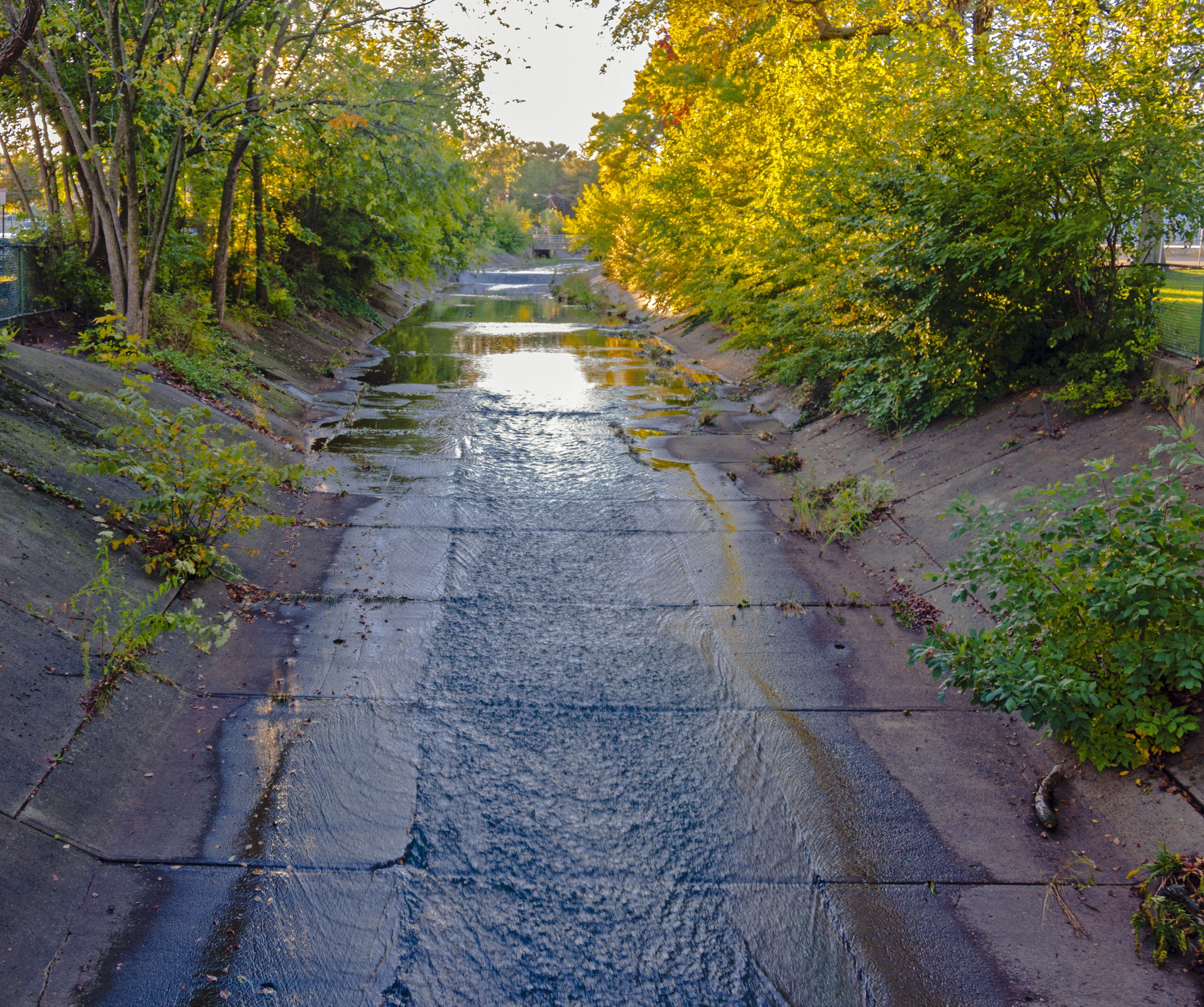 Heards Brook, a tributary of Woodbridge Creek, seen from the Pearl Street bridge near the train station. It is channelized for its entire length.